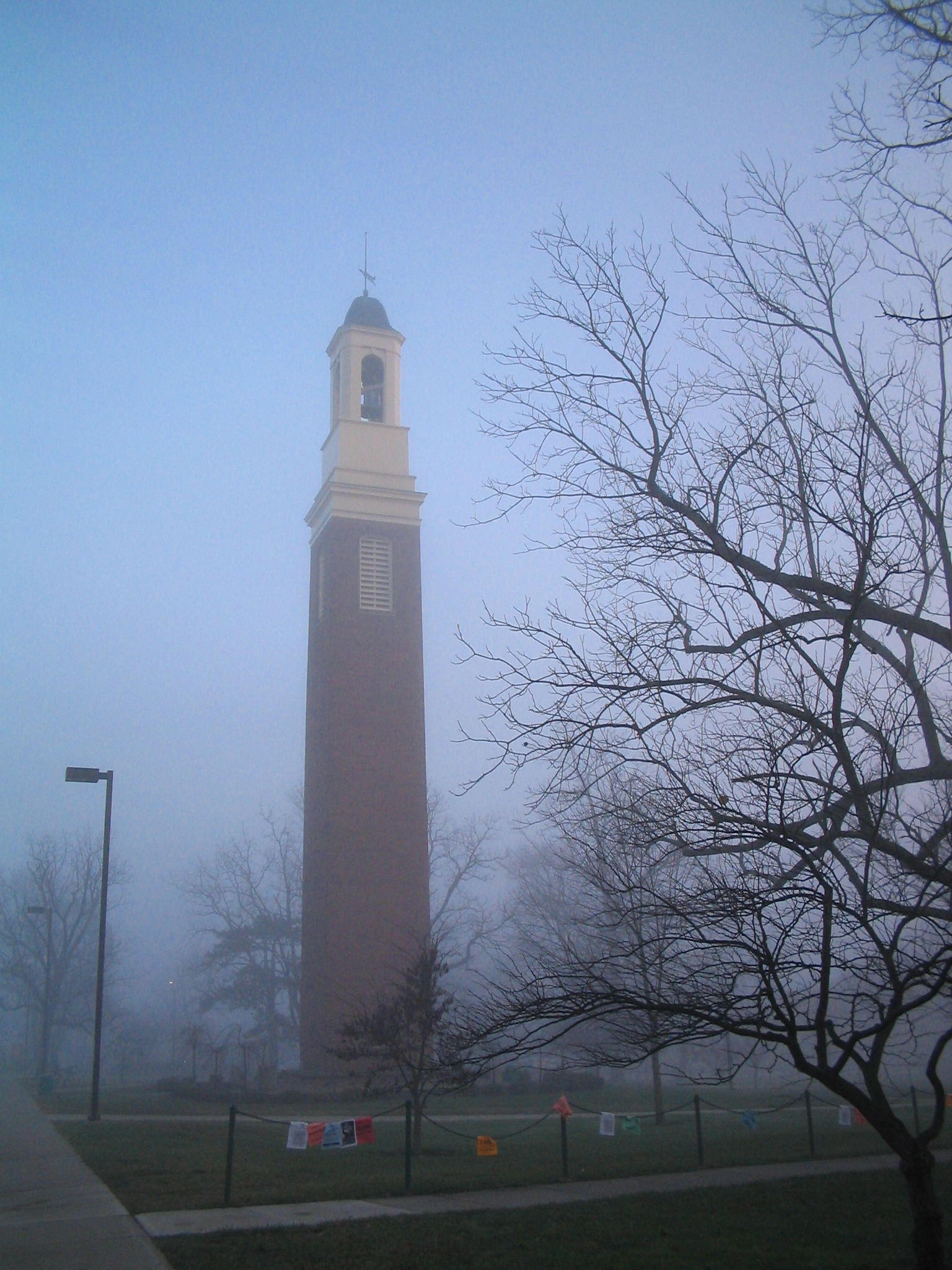 The Beta Bell Tower at Miami University in Oxford, Ohio